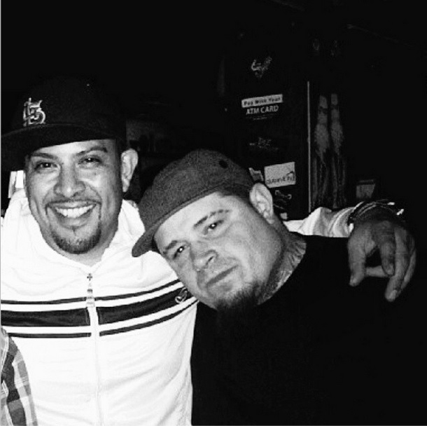 Victor Gurrola Jr. and Vincenzo Luverini